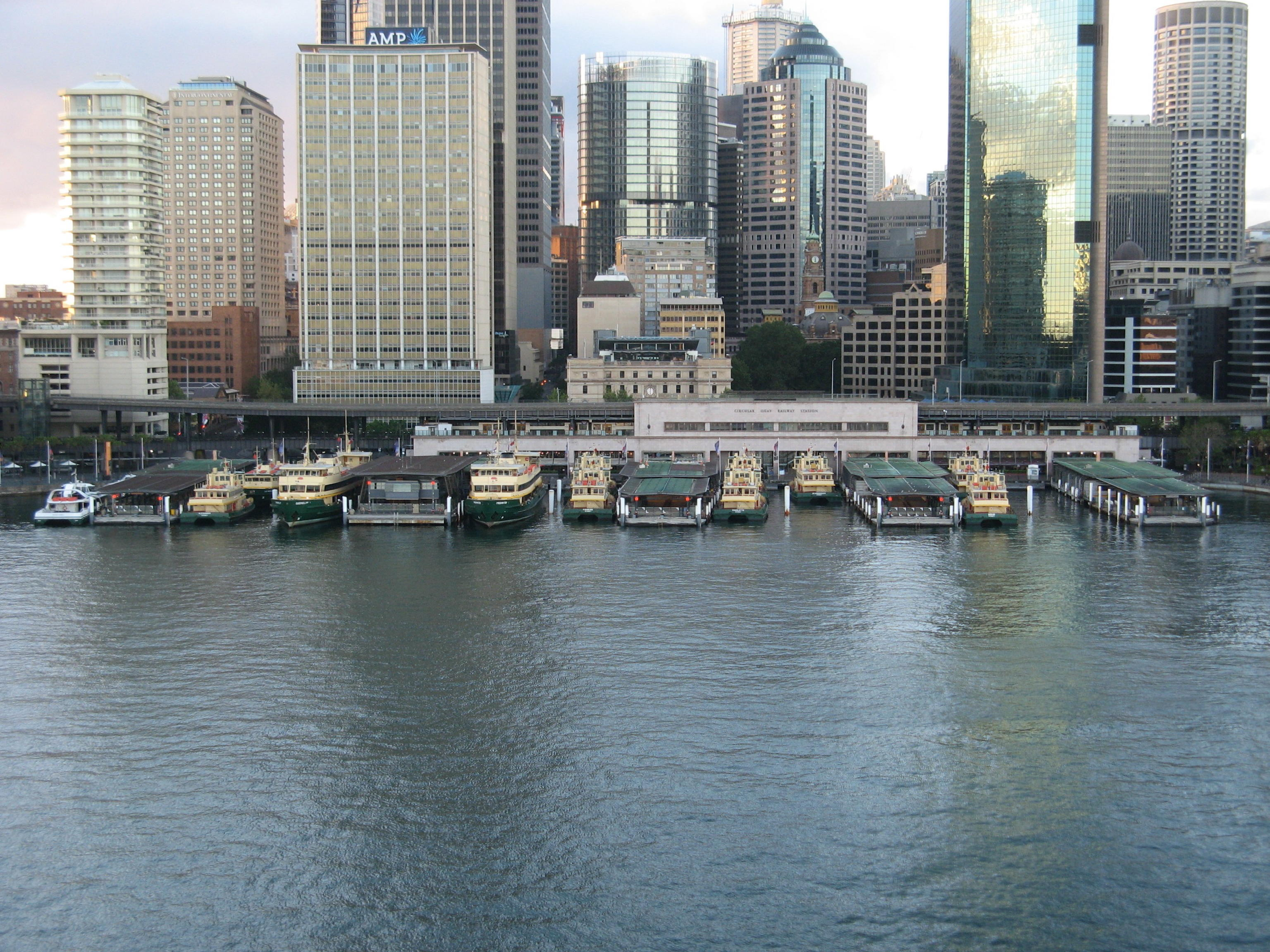 Ferries at the Circular Quay wharf in Sydney. The railway station is visible behind them.